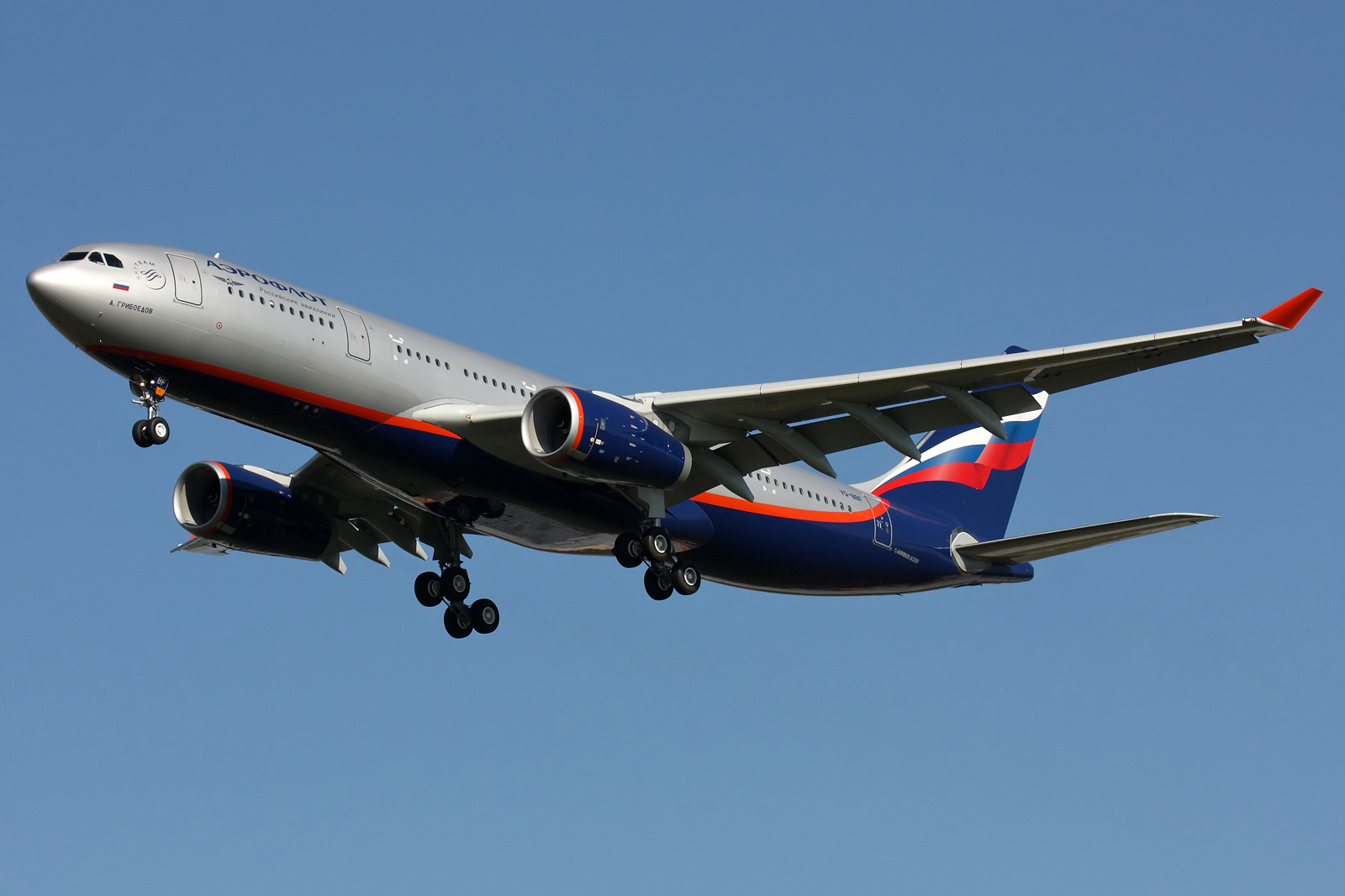 An Aeroflot Airbus A330-243 at Pulkovo Airport (LED / ULLI)